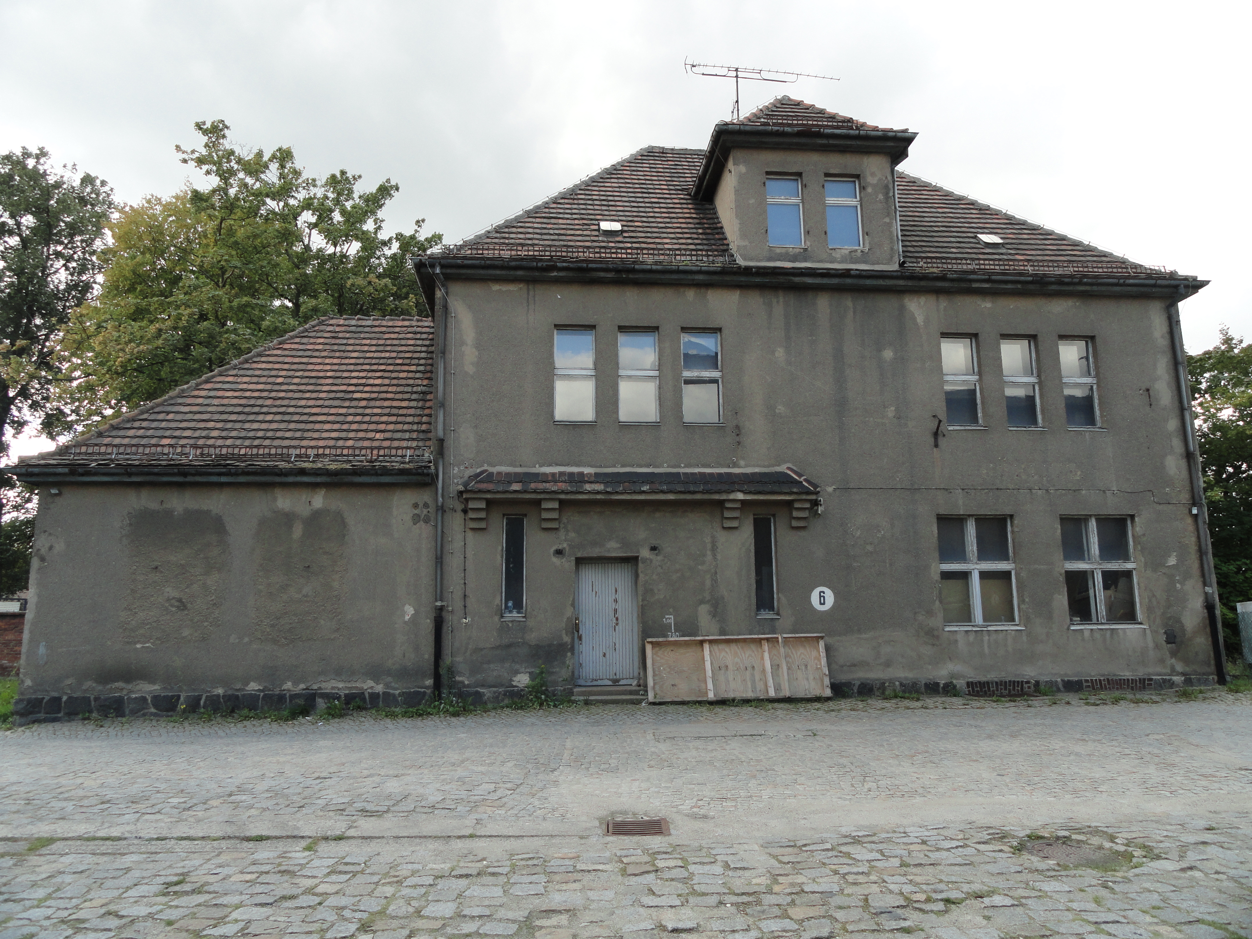 former train station of the railway company Görlitzer Kreisbahn at the Rauschwalder Straße in Görlitz, Saxony